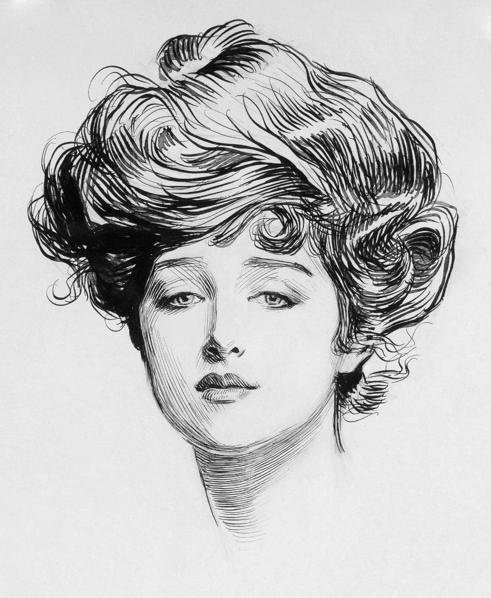 A "Gibson Girl" portrait by Charles Dana Gibson, Note: This iconic image was selected by the U.S. Post Office for a 32 cent postage stamp first released on 3 February 1998